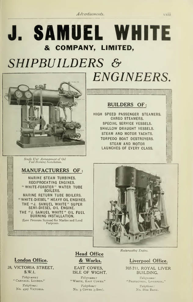 Advertisement for J. Samuel White shipbuilders in Brassey's Naval Annual 1923.